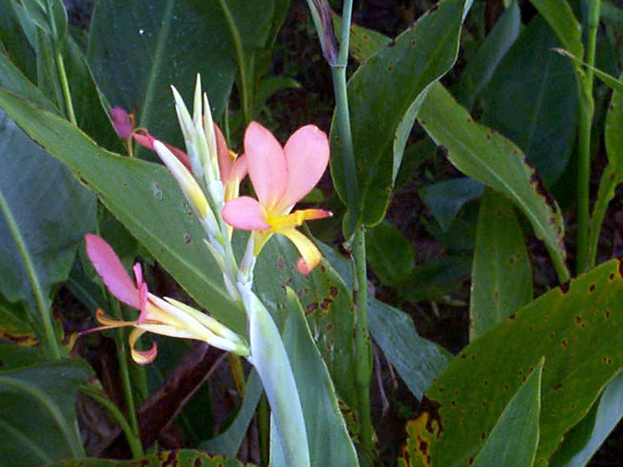 mine